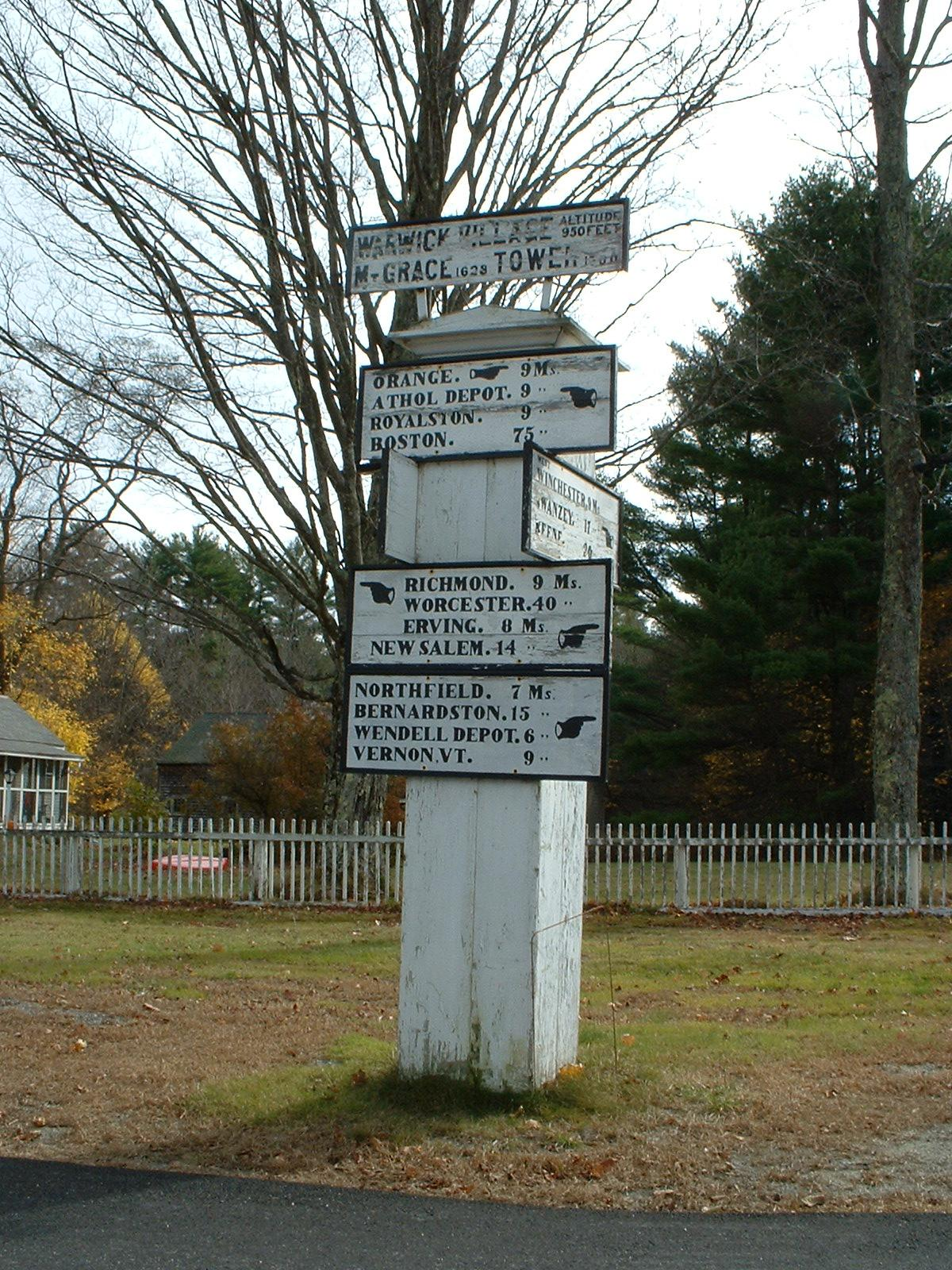 An antique signpost at the intersection of Athol Road and Hotel Road, Warwick, Massachusetts.